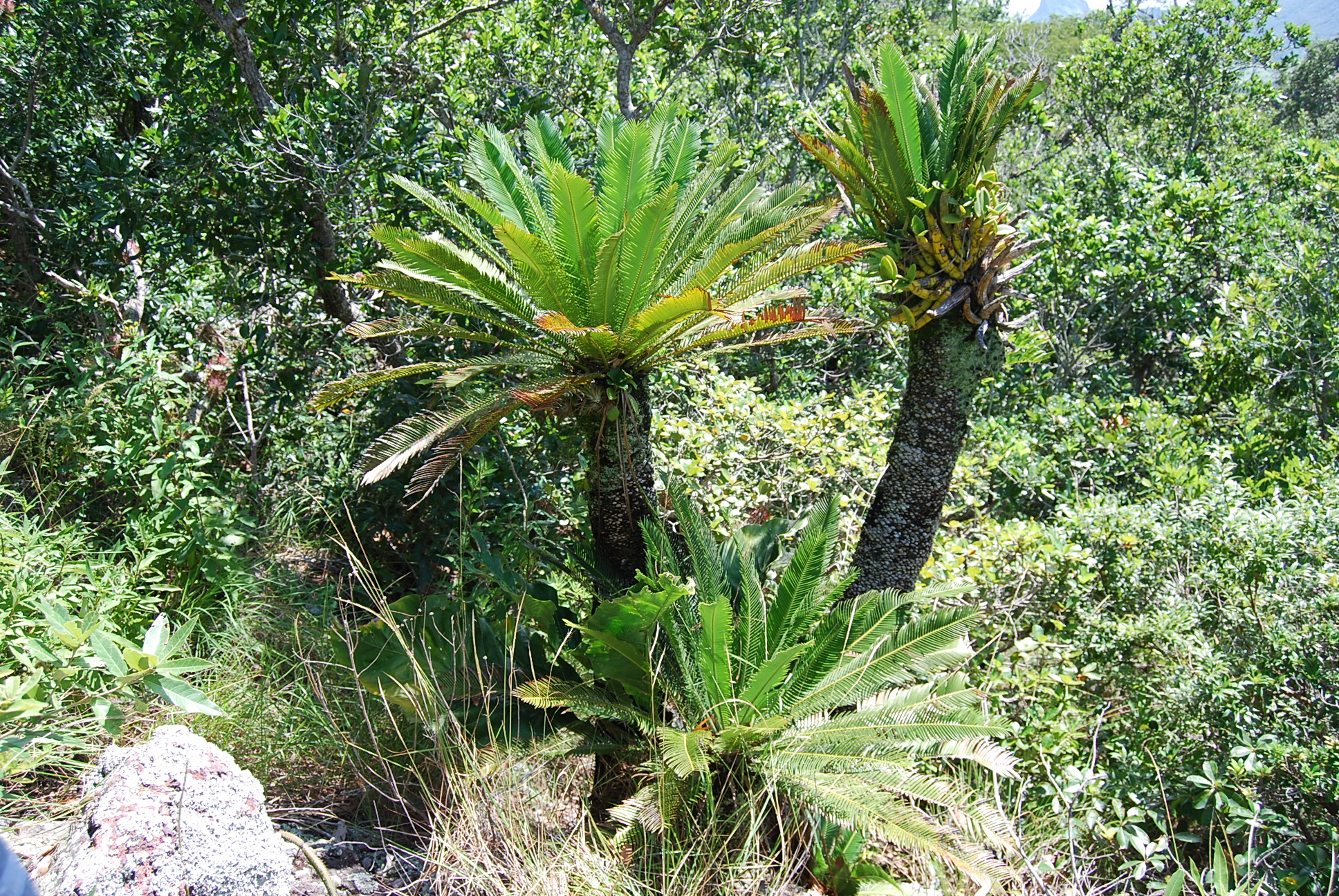 Cycads in an oak forest, in central Veracruz. Altitude: 160 m asl.